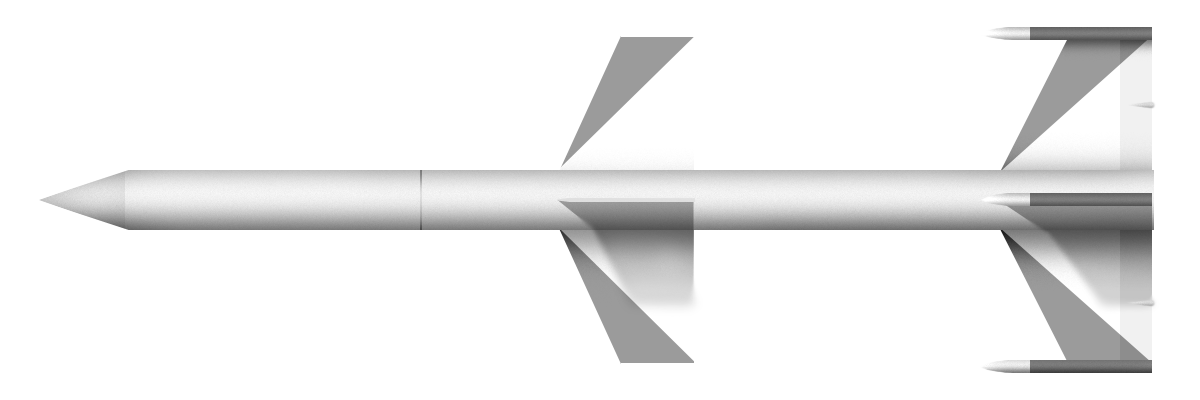 Raduga R-38 (AA-4 Awl) air to air missile scheme